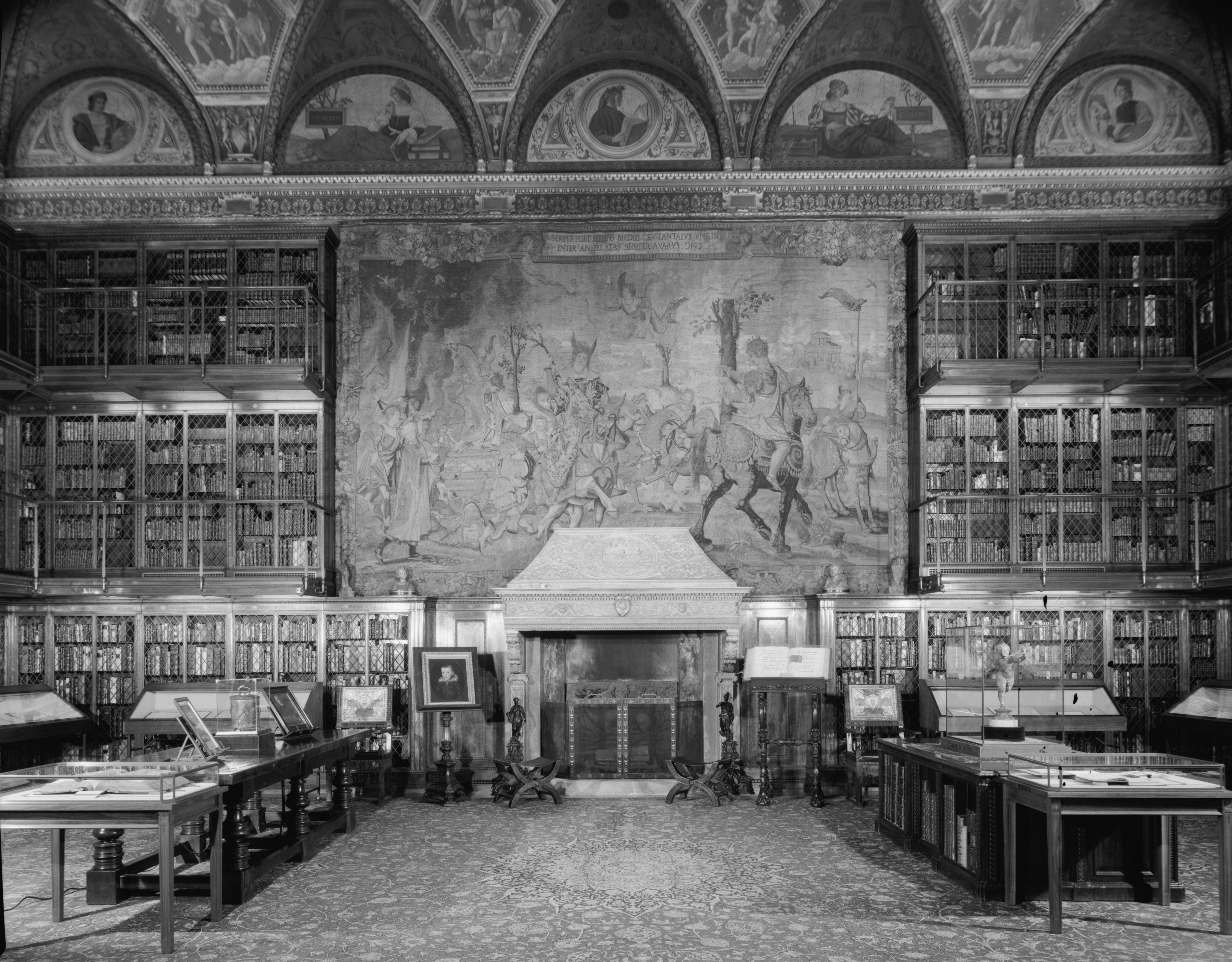 Pierpont Morgan Library, E. 36th St., New York City. Main room, from entrance door